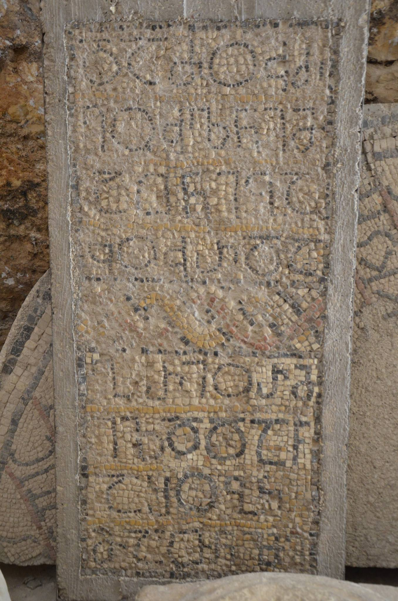 Inscription: Jerusalem II Old Georgian